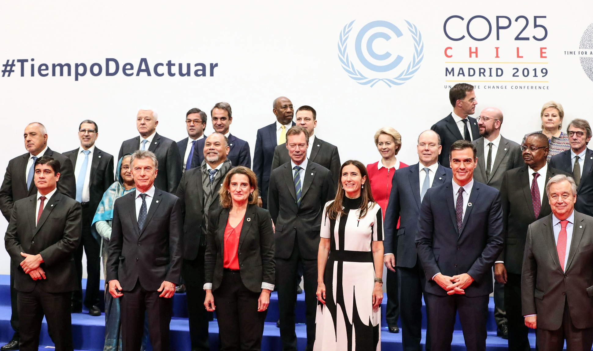 Official group photo of the 2019 United Nations Climate Change Conference